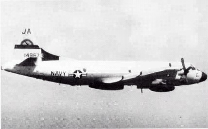 Low quality photo of a U.S. Navy Lockheed EP-3A Orion (BuNo 149673) of air test and evaluation squadron VX-1 Pioneers in 1983. This aircraft was used in the "EMPASS" project, the "Electromagnetic Performance of Air and Ship Systems" (EMPASS) Project. The airborne system consisted of radio frequency (RF) receivers and antennas with special relays and interface units which allowed a UNIVAC 1830A computer to interrogate and control them. Aircraft position, RF signal, and system status measurements were recorded digitally on magnetic tape while operator displays were provided for some immediate data analysis and system monitoring. The flight crew were all Navy personnel, while the electronics and computer equipment operators were civilians. A typical mission would carry a crew of ten people. The a/c was capable of mapping three-dimensional antenna patterns of live, operational transmitters. Recordings made during flight were returned to Dahlgren Naval Base (Virginia) for analysis and plotting of antenna patterns.